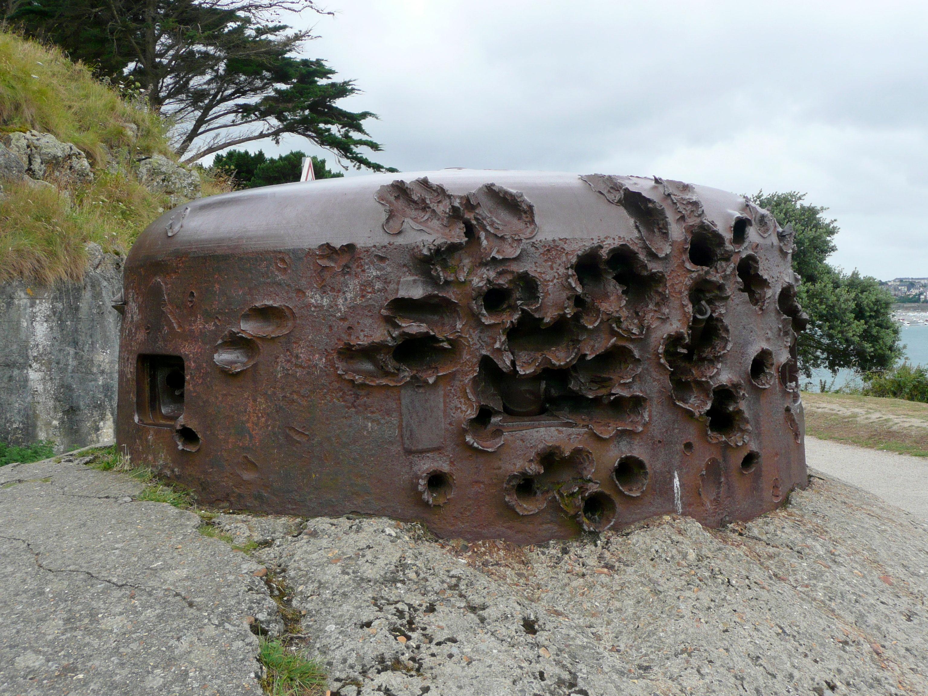 Fortification of the germans army Saint Malo (Brittany, France)